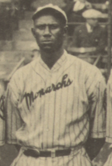 Bill Drake at the 1924 Colored World Series. LOC states here that there are no restrictions on use of this image, therefore it is PD. This file has been extracted from another file: 1924 Negro League World Series.jpg